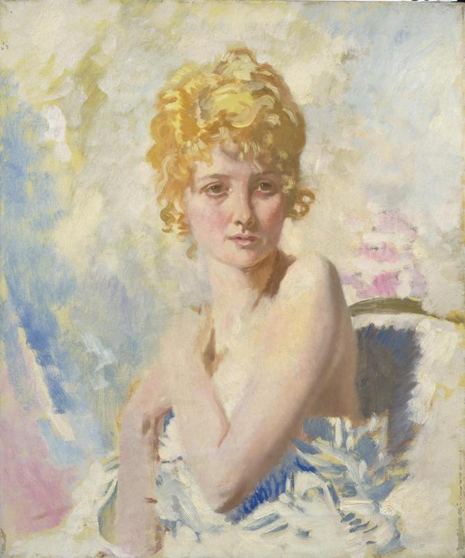 The Refugee (b) image: A half-length portrait of Yvonne Aubicq. She sits on an 18th Century style chair against a mottled pastel coloured background. She has her hands drawn defensively up to her right shoulder baring her naked arm to the viewer.